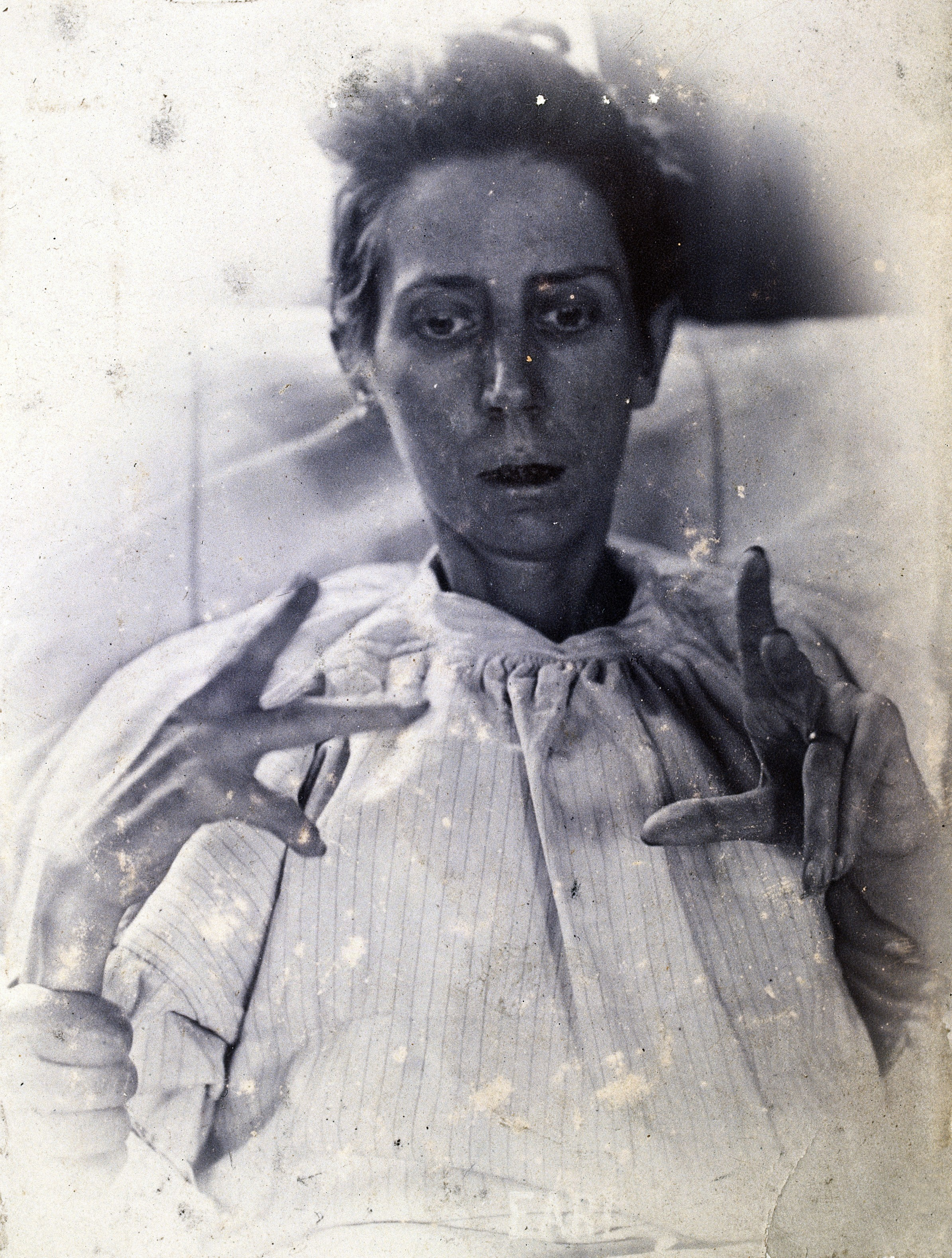 Iconographic Collections. Keywords: Friern Hospital (London)